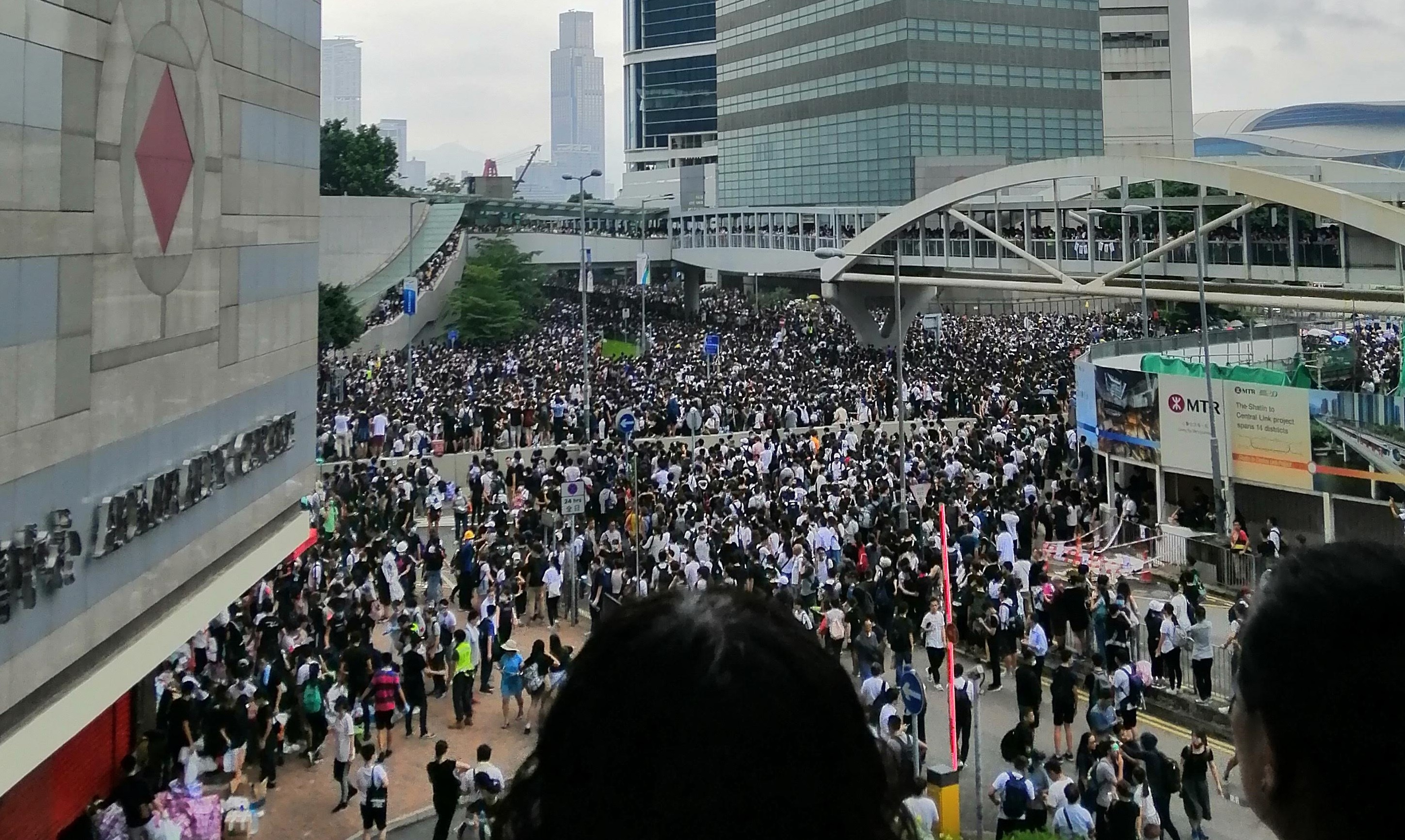 Hong Kong protesters were occupying Harcourt Road adjacent to the Government Complex at 3:30 p.m., 12 June 2019